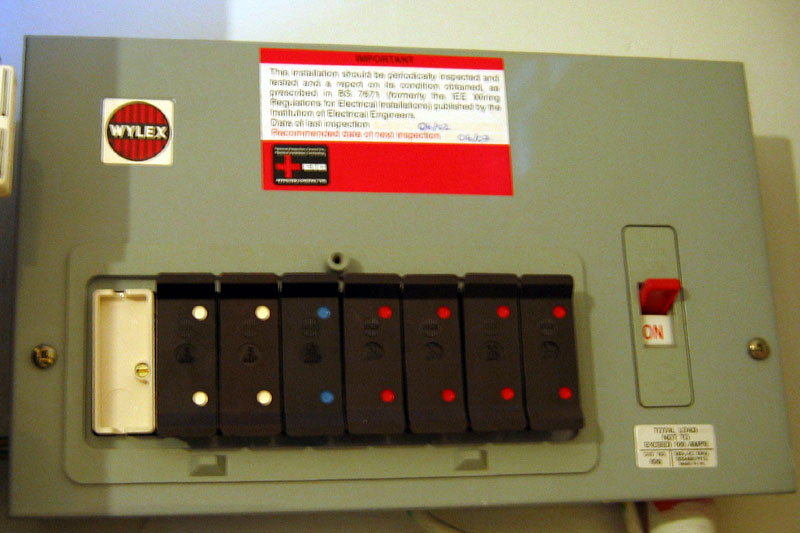 Fuse Box taken by C Ford, 29 June 2004.